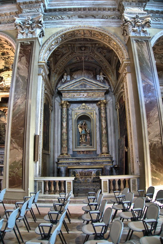 Guardian Angel Chapel